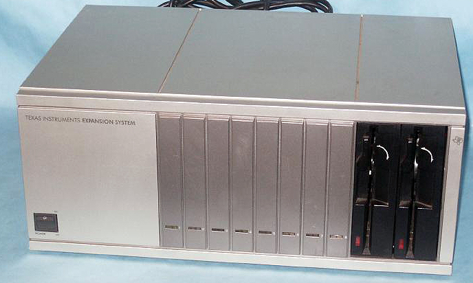 TI99 Expansion Box